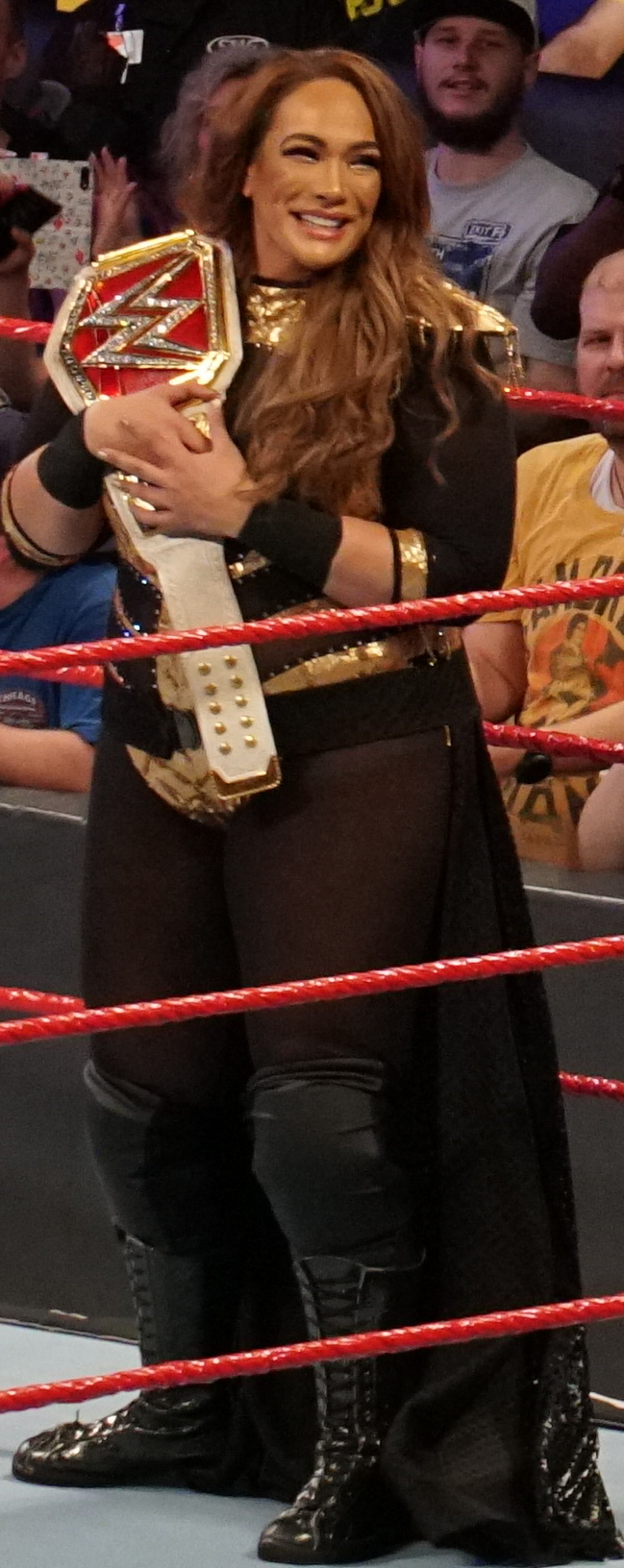 NOLA 2018 - WWE RAW - Ember Moon & Nia Jax Vs Alexa Bliss & Mickie James Ember Moon & Nia Jax def. (pin) Alexa Bliss & Mickie James (in 03:02) Beginning of Ember Moon at Raw ( Deux semaines a Nola pour la ville et pour WWE Wrestlemania XXXIV Two weeks Nola for the city and for WWE Wrestlemania XXXIV )